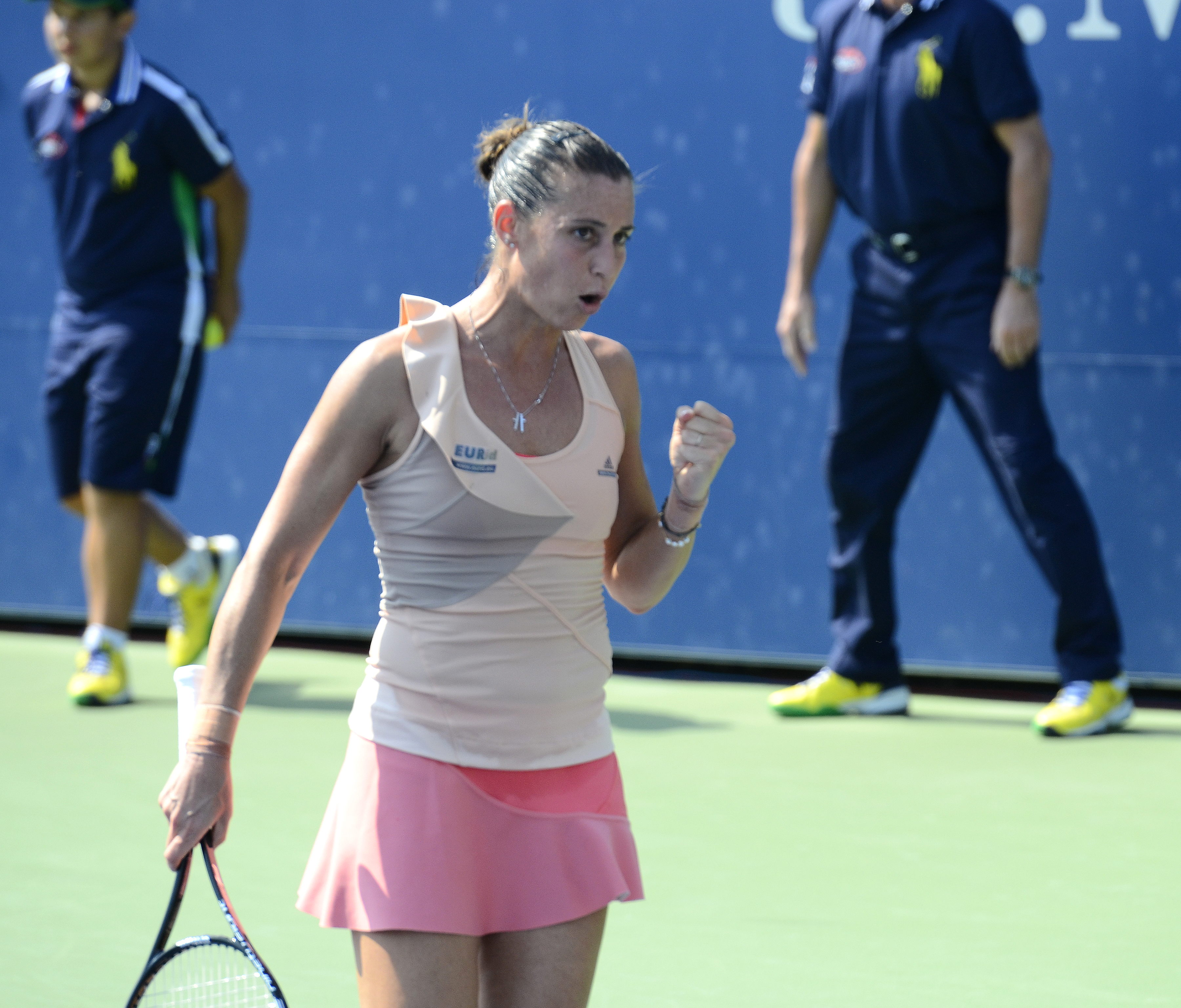 August 26, 2014 Queens, NY Flavia Pennetta (ITA) def. Julia Goerges (GER)